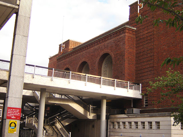 Hammersmith Town Hall main entrance, Hammersmith, London. 28 September 2005. Photographer: Fin Fahey.